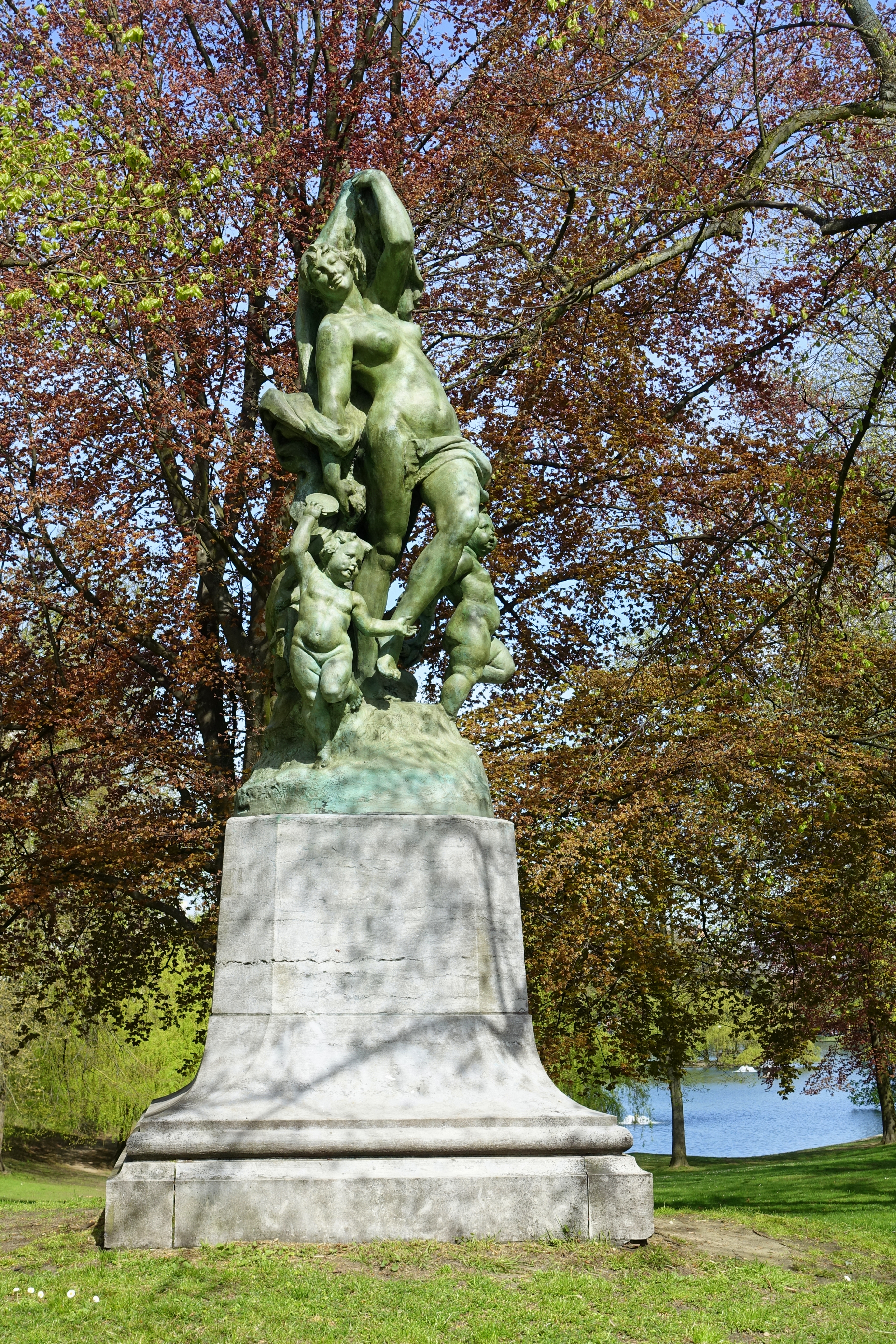 La Danse by Jules Herbays (1866-1940) - Étangs d'Ixelles, Ixelles, Brussels, Belgium. Created in 1912.